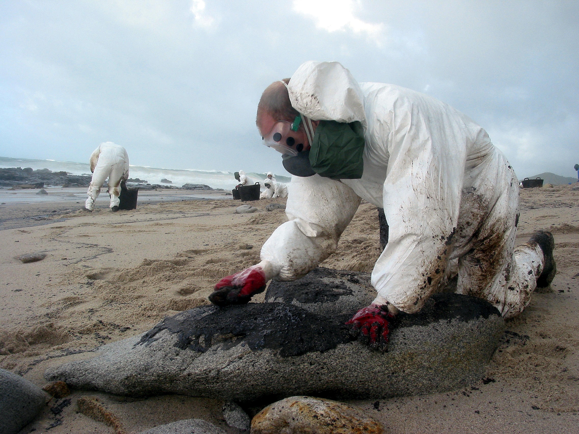 HISTORIAS DEL CHAPAPOTE •Corto Documental 2003 •Dir. Stéphane M. Grueso •Prod. Stéphane M. Grueso •Backpackvideo Films •1 x 35' / color / stereo •DVCAM Tras el vertido del petróleo Prestige frente a las costas gallegas se produce la mayor catástrofe medioambiental de la historia de España. Toneladas y toneladas de petróleo van llegando a las costas. Ante la pasividad o desbordamiento de las autoridades, los ciudadanos se organizan y van a Galicia a ayudar a recoger el fuel. La figura del voluntario nace en España. En este documental seguimos la experiencia de un grupo de 50 voluntarios organizados por la Universidad de Sevilla, que van a Galicia a luchar contra la catástrofe. Durante seis días seguimos sus actividades y nos cuentan sus experiencias. Mediante este documental pretendemos descubrir y comprender las motivaciones que llevan a un grupo de personas a realizar una acción tan solidaria, novedosa y casi desconocida en nuestros días. Más info en: ENGLISH---------------------------------- STORIES OF THE CHAPAPOTE •Documentary 2003 •Dir. Stéphane M. Grueso •Prod. Stéphane M. Grueso •Backpackvideo Films •1 x 35' / color / stereo •DVCAM The spill from the Prestige, the oil tanker which broke up and sank off the coast of Galicia, caused the biggest environmental disaster in Spain's history. Tones and tones of oil kept arriving at the coast. With the authorities failing to act or overtaken by events, ordinary citizens organized themselves and set off for Galicia to help clean up the fuel oil. Thus was the figure of the volunteer born in Spain. This documentary records the experiences of a group of 50 volunteers organized by the University of Seville who went to Galicia to combat the catastrophe. It follows them for six days and they tell us about their experiences. This documentary sets out to discover and understand what motivates a group of people to carry out such a novel act of solidarity, something practically unheard of nowadays. More Infos in